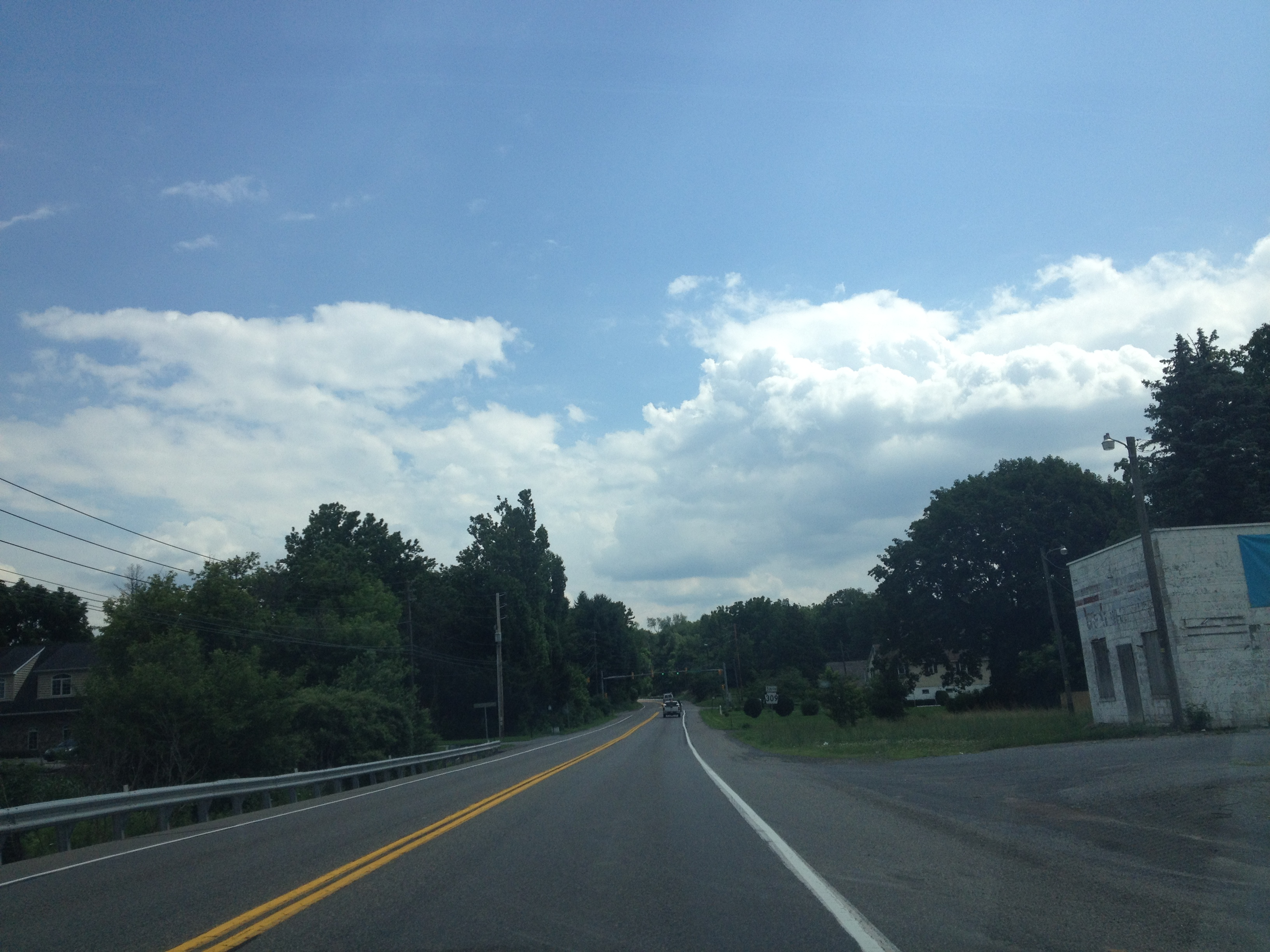 Southbound Pennsylvania Route 309 approaching the intersection with Huckleberry Road in South Whitehall Township.